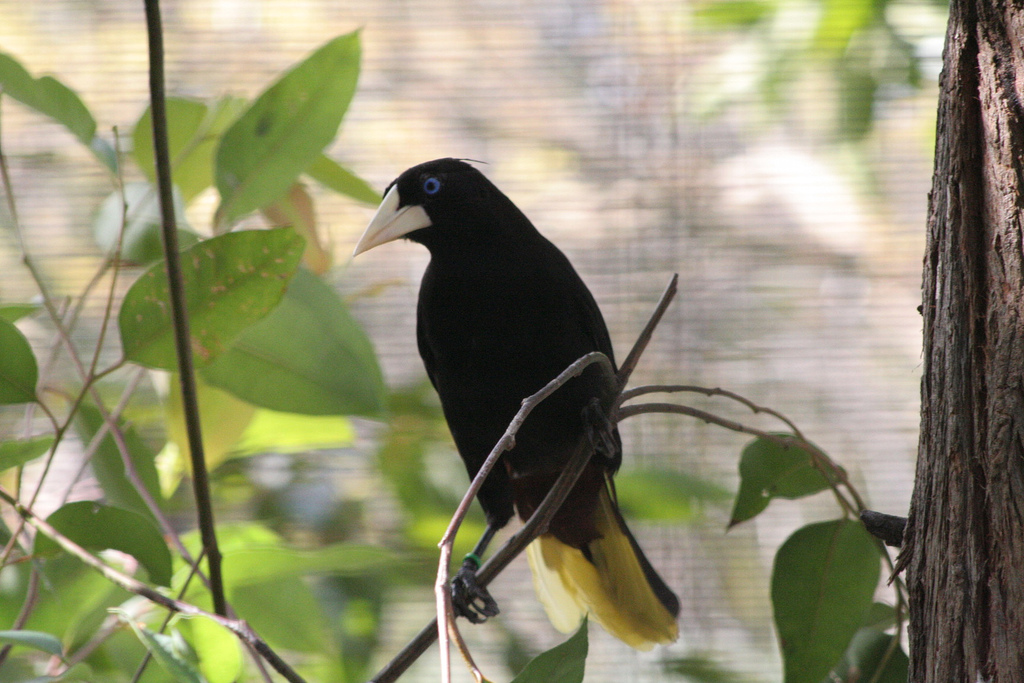 Crested Oropendola